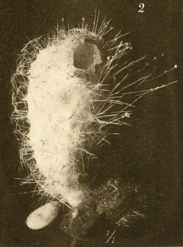 Staurocalyptus pleorhaphides Ijima, 1897 "Another entire specimen. S. C. M. No. 415"